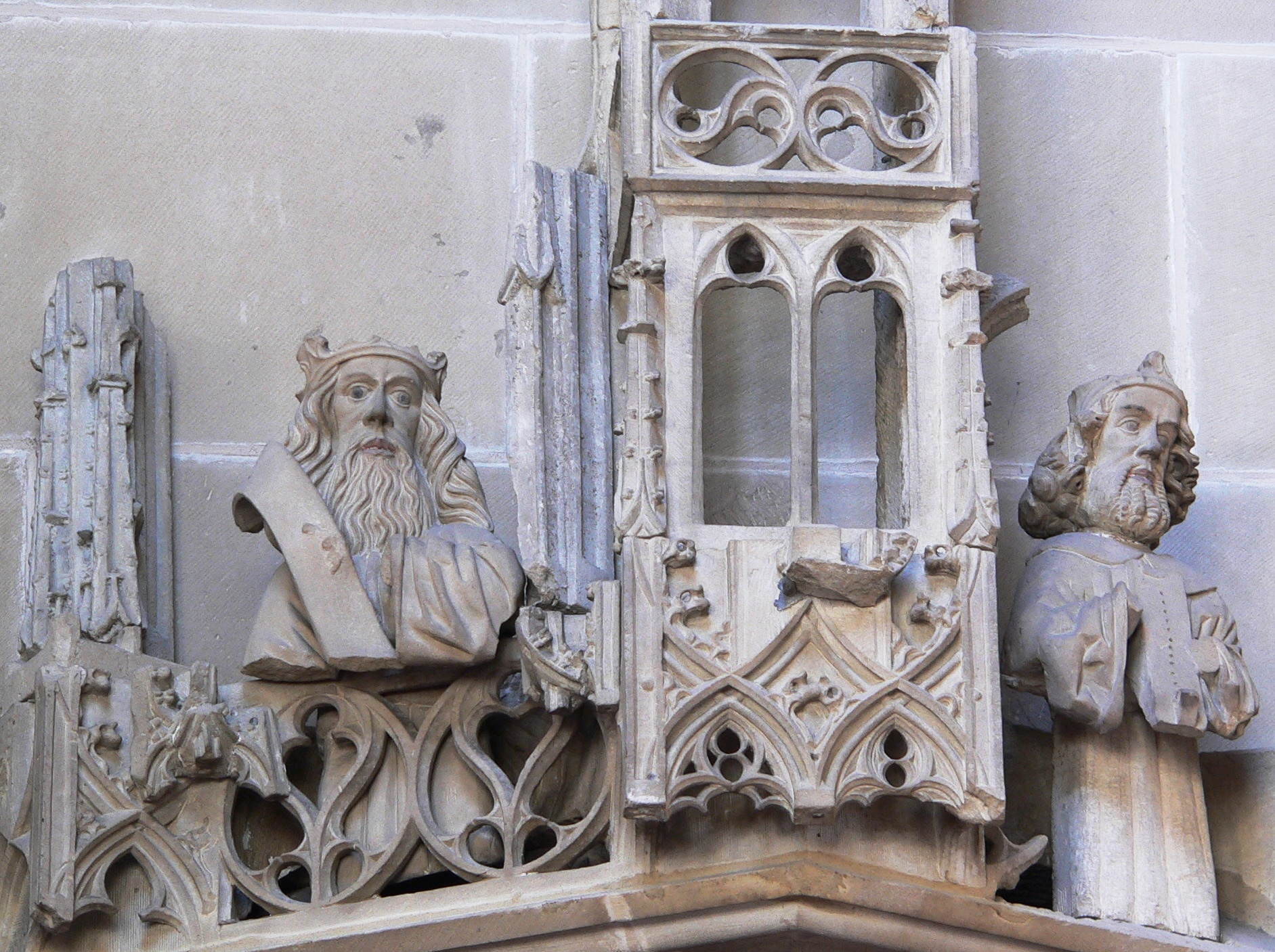 Detail of the "Church tabernacle" in the North-Choir of the Church Kilianskirche of Heilbronn, Germany